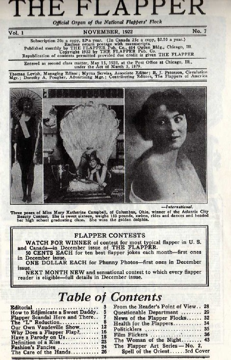 Page from magazine "The Flapper" for November 1922.